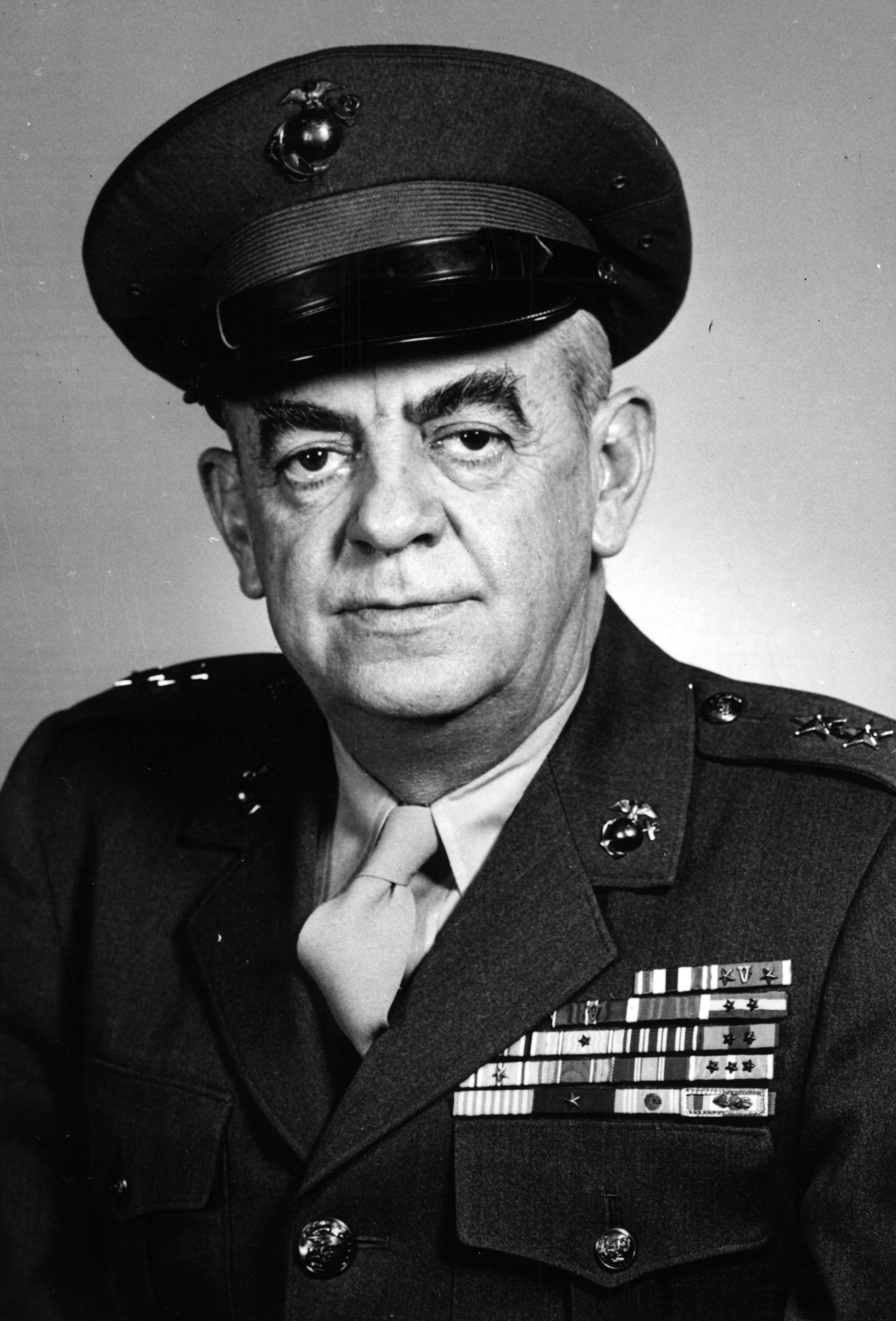 Francis Marion McAlister (March 29, 1905 - September 2, 1965) was an highly decorated officer of the United States Marine Corps with the rank of Major General. He distinguished himself several times during World War II and later received Silver Star for gallantry in action in Korean War. McAlister concluded his career as Commanding General of Department of the Pacific.